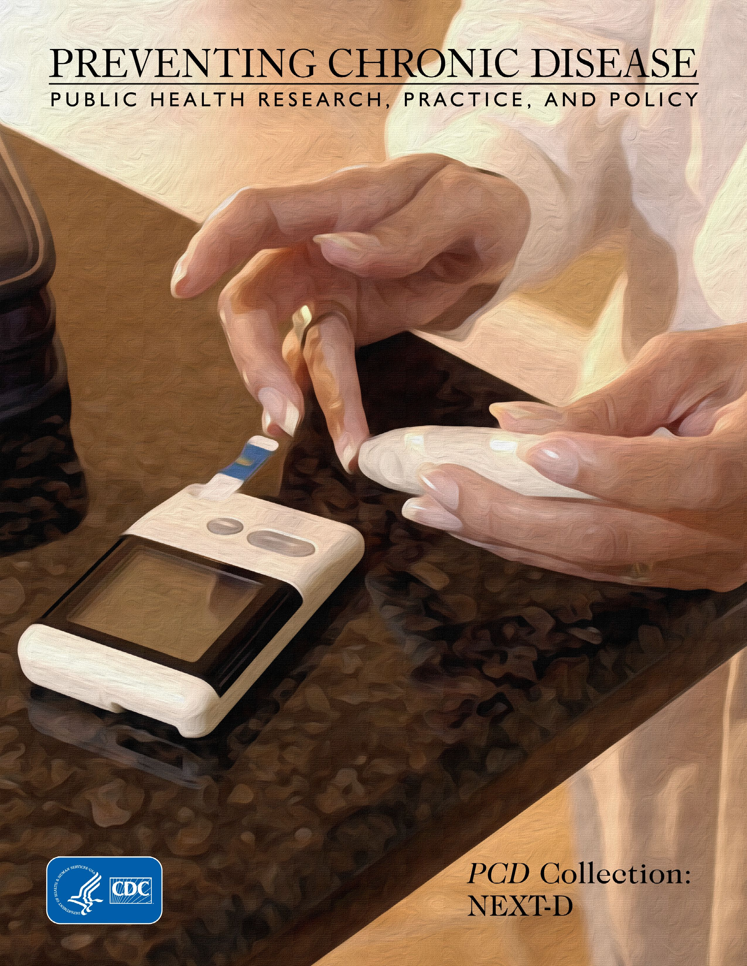 Cover of the Preventing Chronic Diseases journal, showing a person measuring their blood sugar using a lancet and a glucose meter.